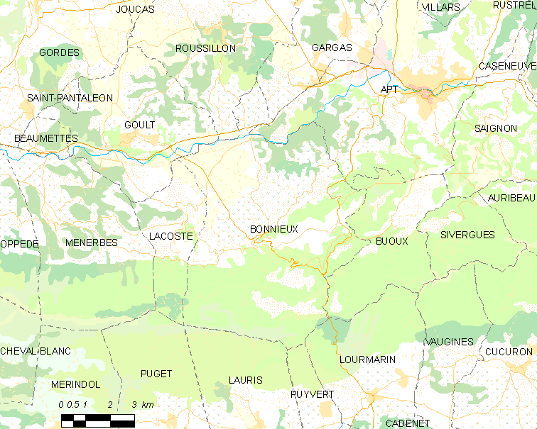 Map of French municipality Bonnieux